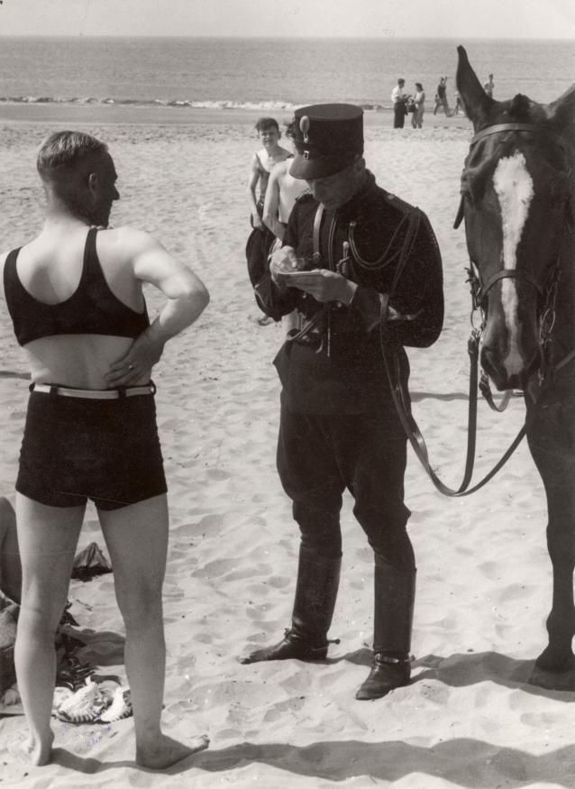 Man at the beach fined for not wearing decent clothes. Netherlands, Heemskerk, 1931. You can help us gain more knowledge on the content of our collection by simply adding a comment with information. If you do not wish to log in, you can write an e-mail to